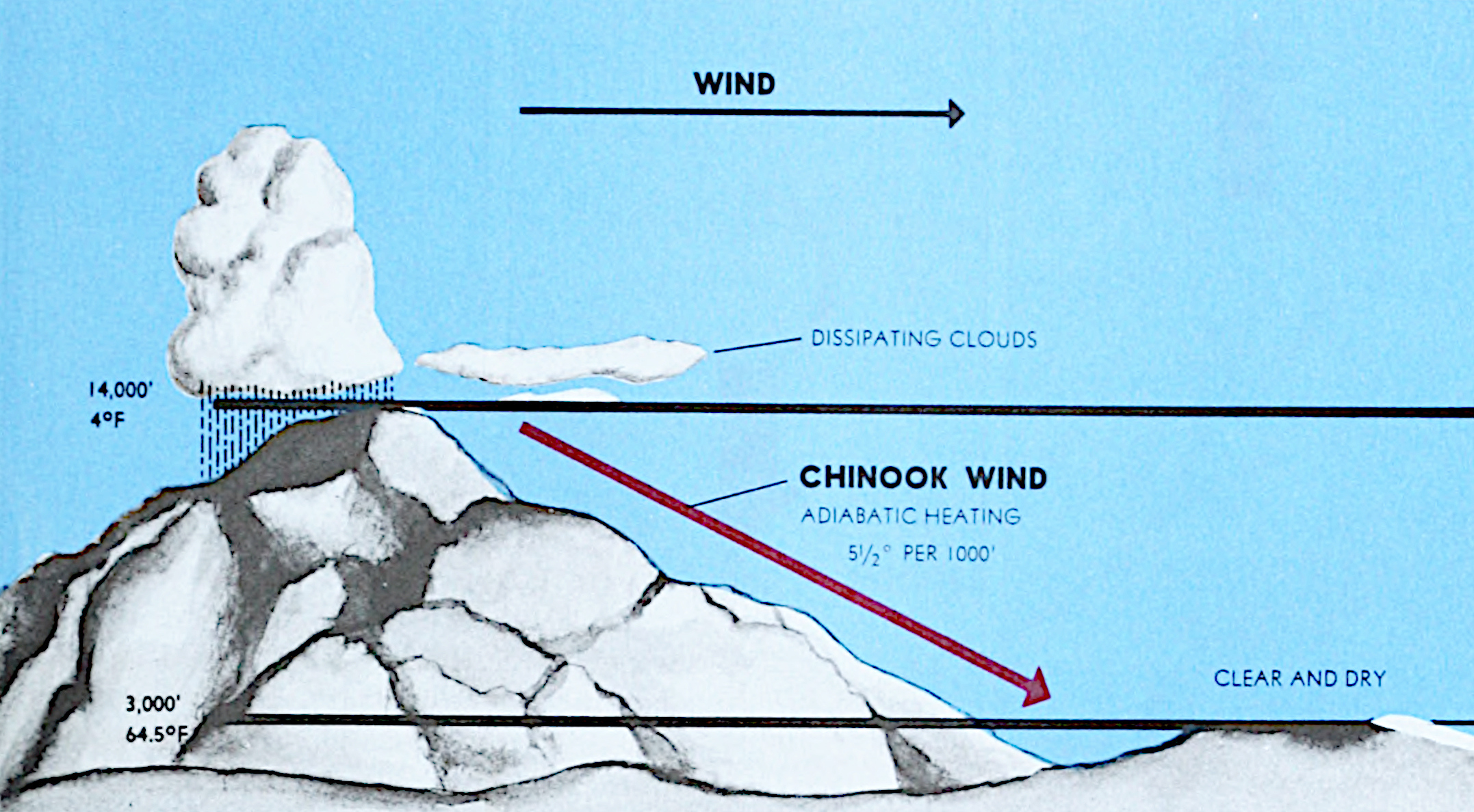 From U.S. FAA AC 00-61, Chapter 6, Figure 41. Adiabatic warming of downward moving air produces the warm Chinook wind.